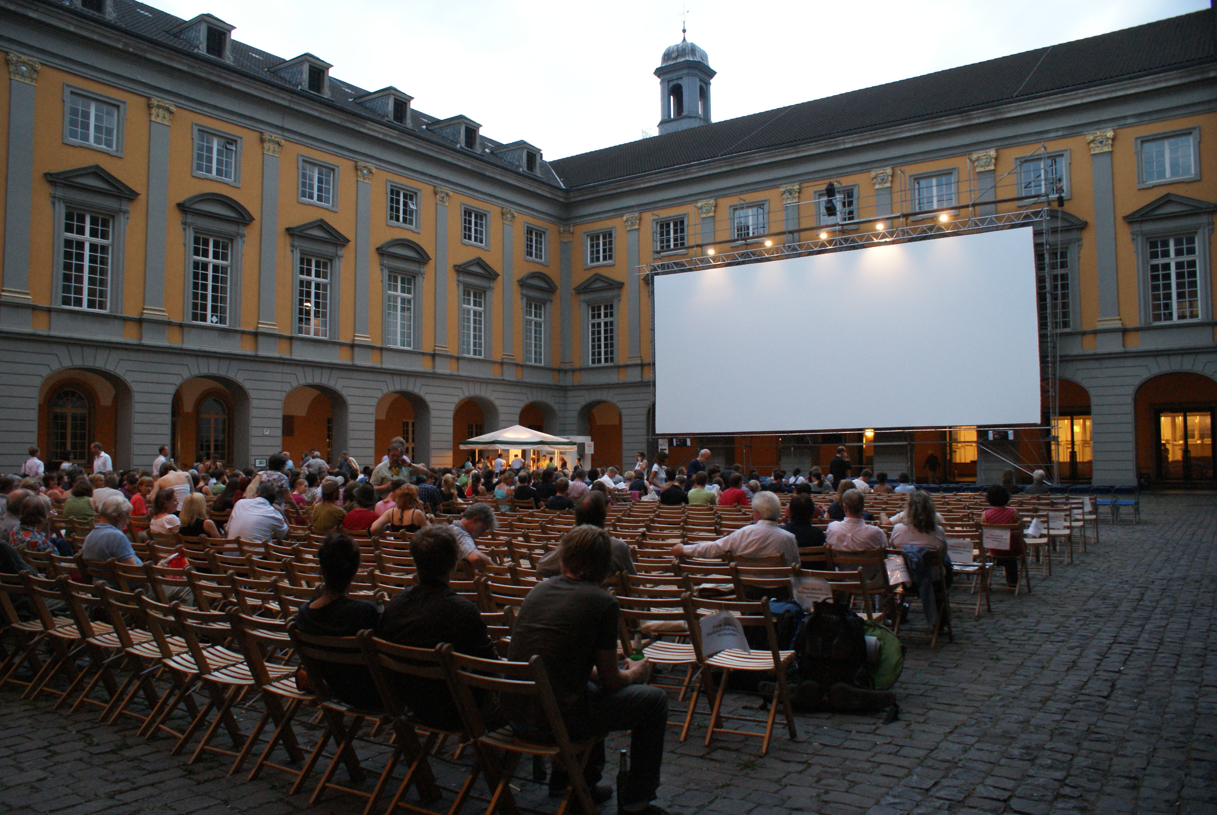 Halfside view on the screen and the Arkadenhof of the Bonner University.